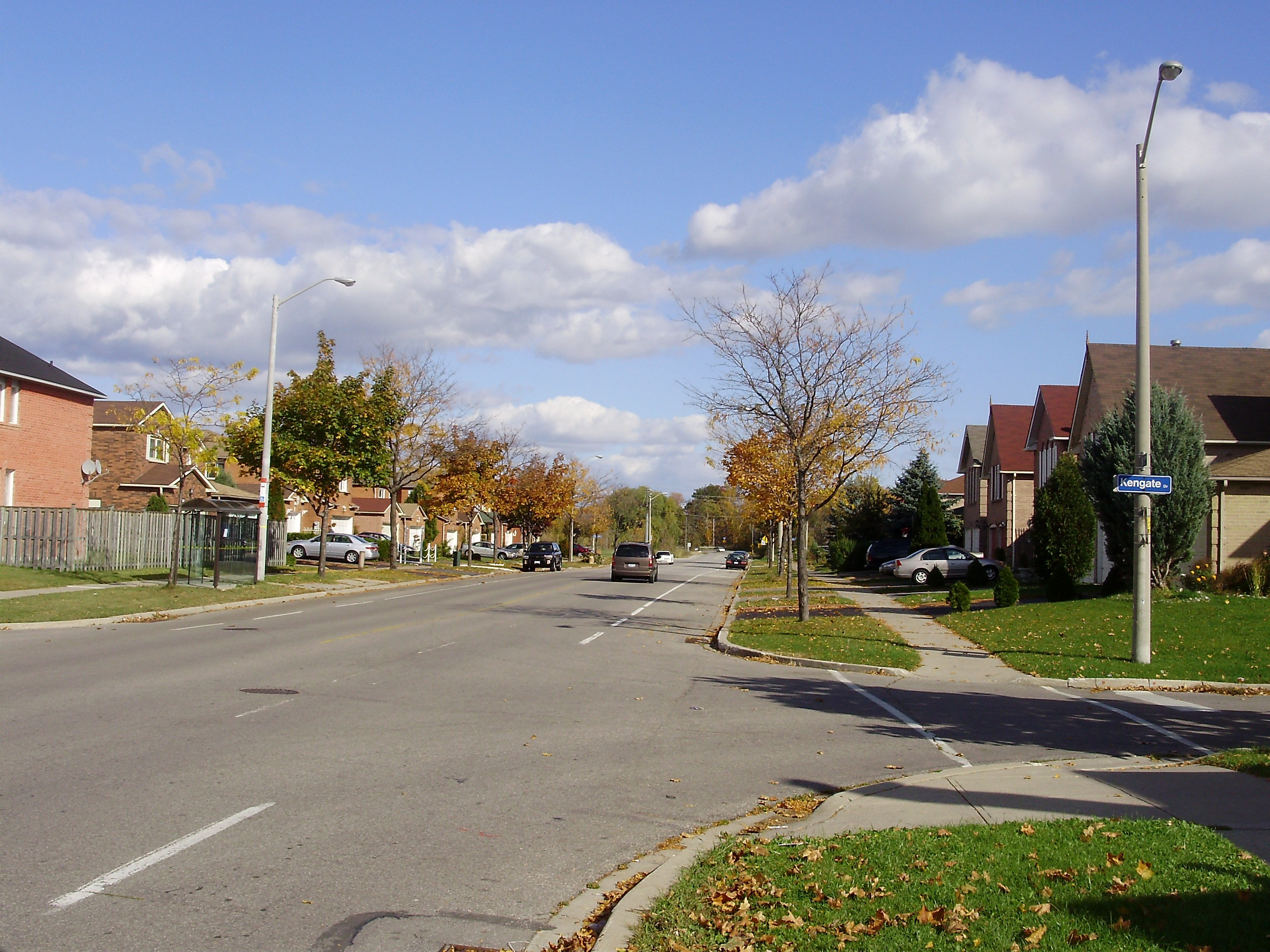 Suburban subdivisions dominate the land around Old Finch Avenue and Kengate Drive in the neighbourhood of Rouge in northeastern Scarborough, Ontario, Canada. The trees at the end of the road mark the transition from suburban development to the Toronto Zoo lands.